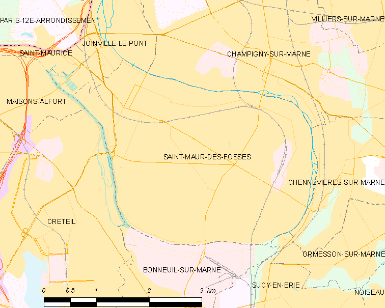 Map of French municipality Saint-Maur-des-Fossés